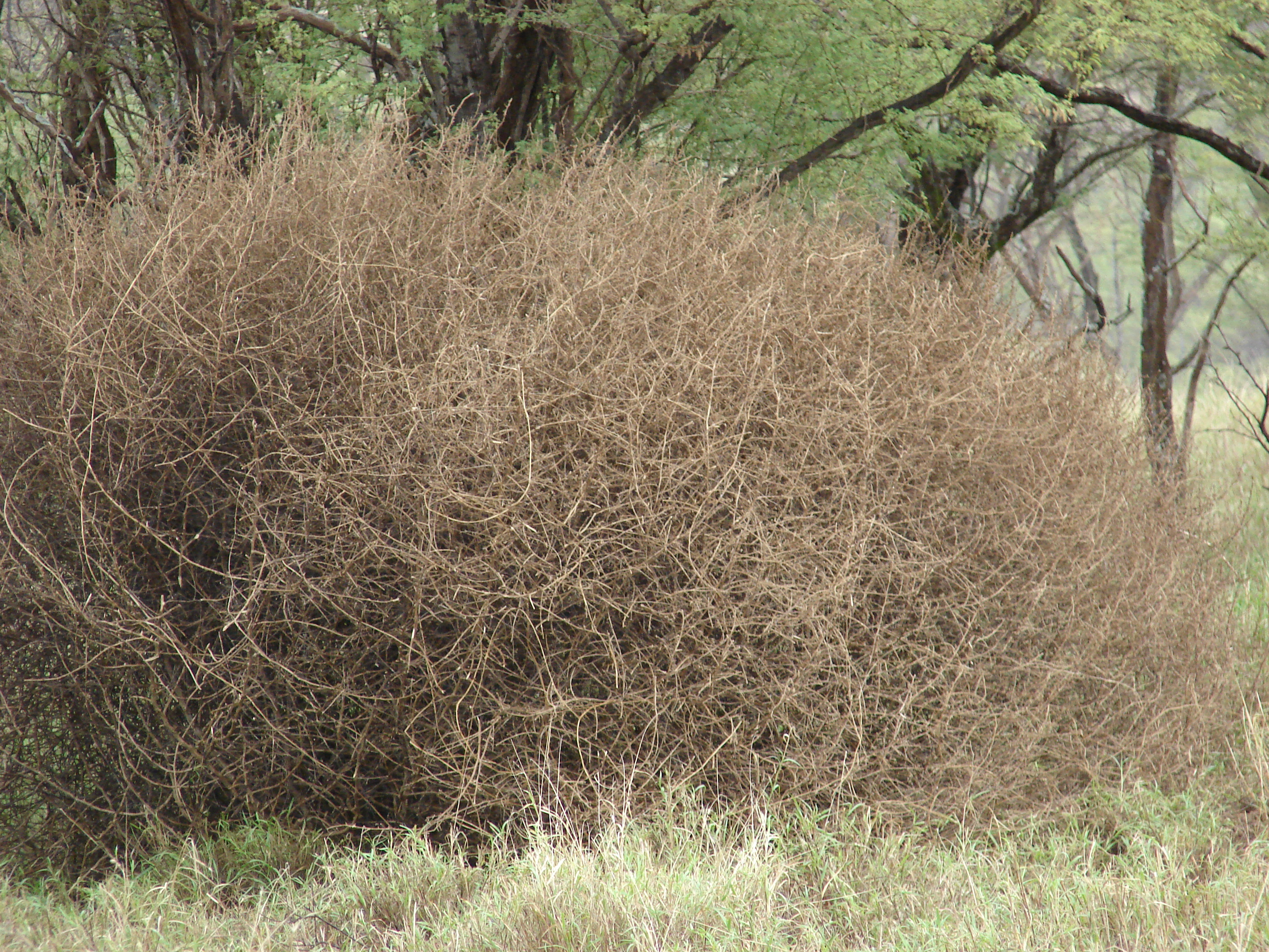 Salsola tragus (large tumblers). Location: Maui, Pulehu